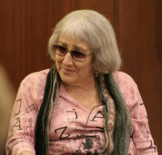 American ichthyologist Eugenie Clark, at a Women's Bureau, Region IV HerStory event held at the University of South Florida Sarasota-Manatee.